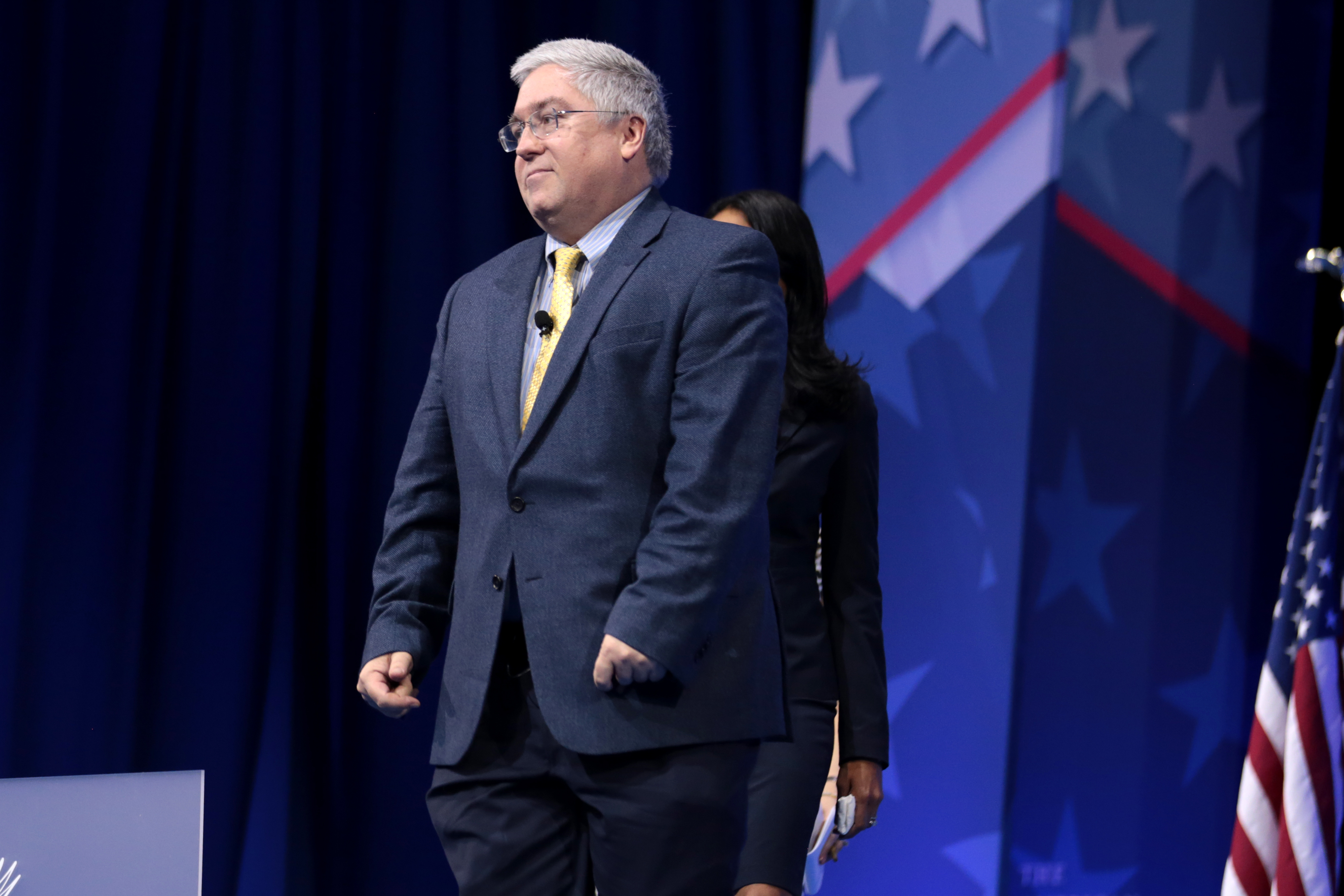 Attorney General Patrick Morrissey of West Virginia speaking at the 2017 Conservative Political Action Conference (CPAC) in National Harbor, Maryland.